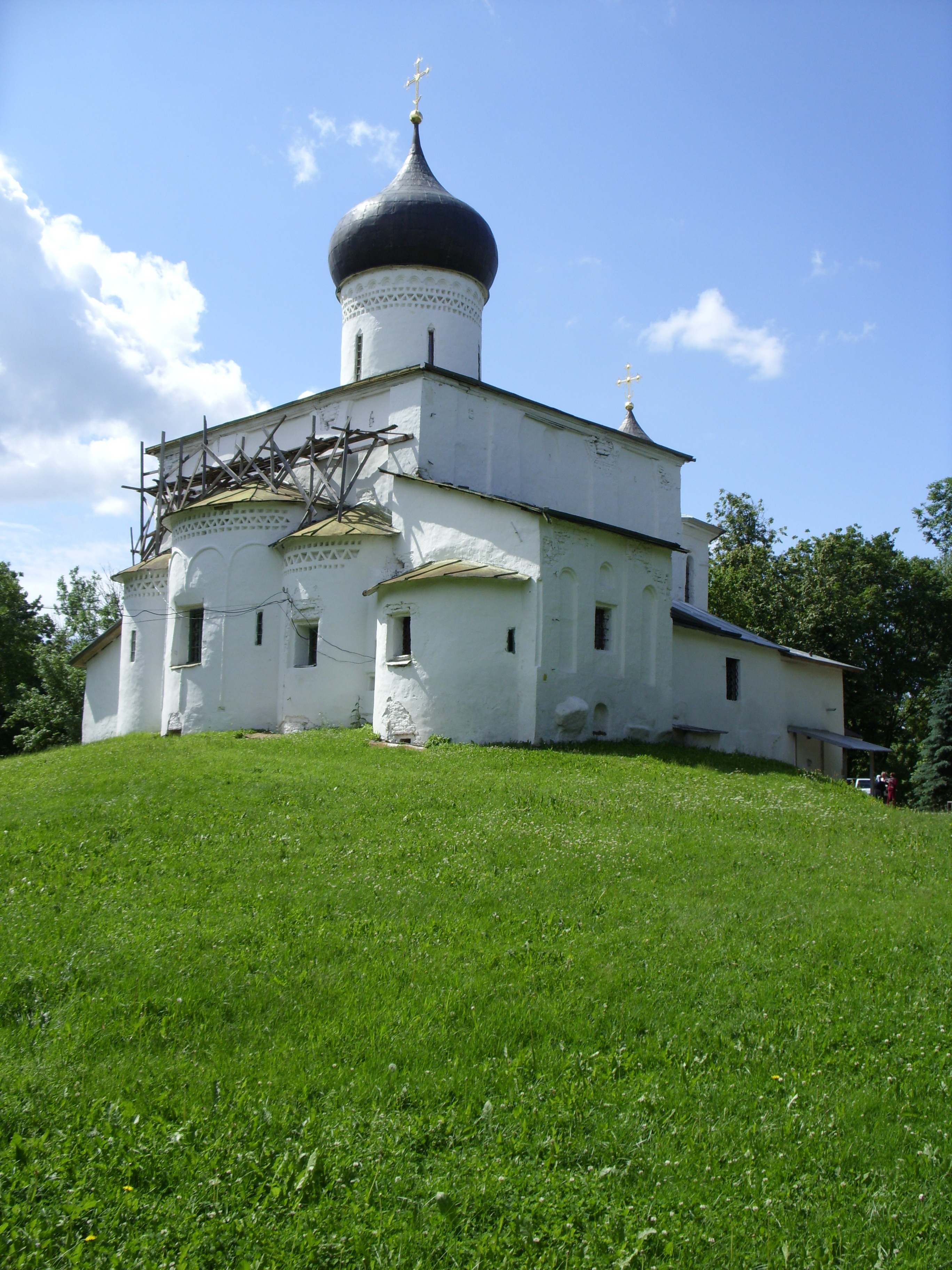 Василия с Горки